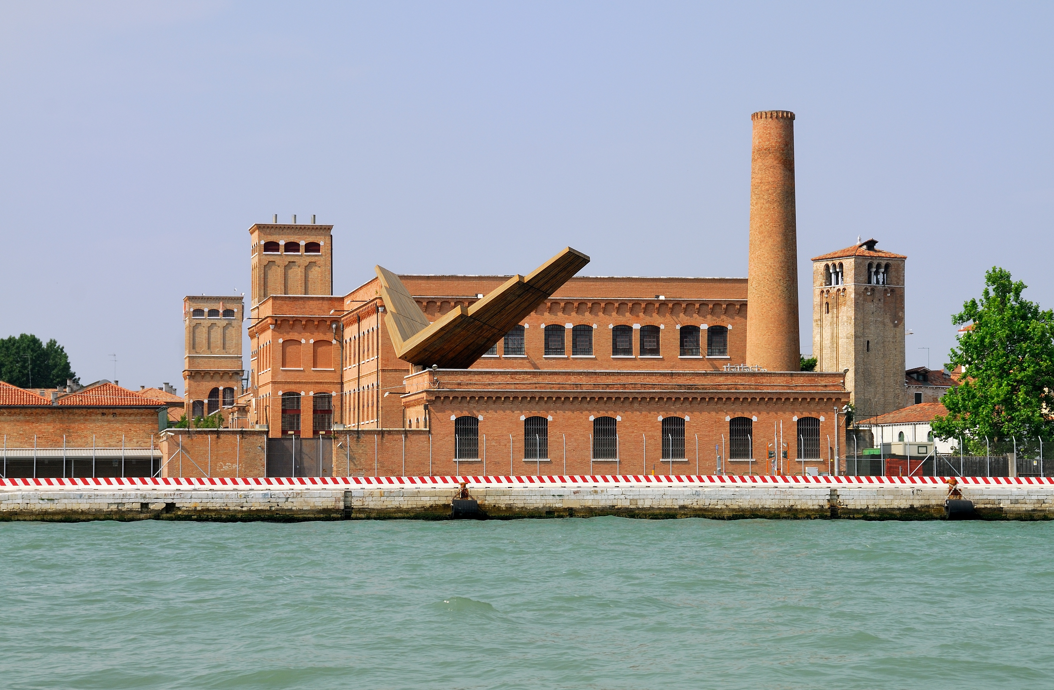 University IUAV of Venice